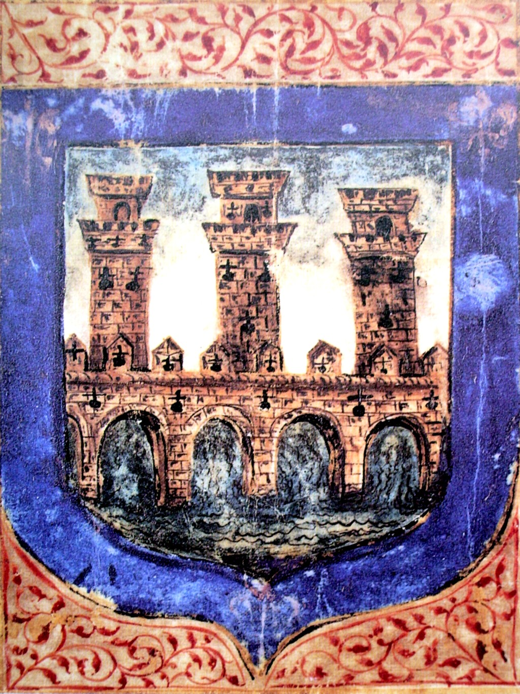 Coat of arms of Logroño (Spain), as showed in the document where Charles V rewarded the city with the right to use the fleurs-de-lis on their arms